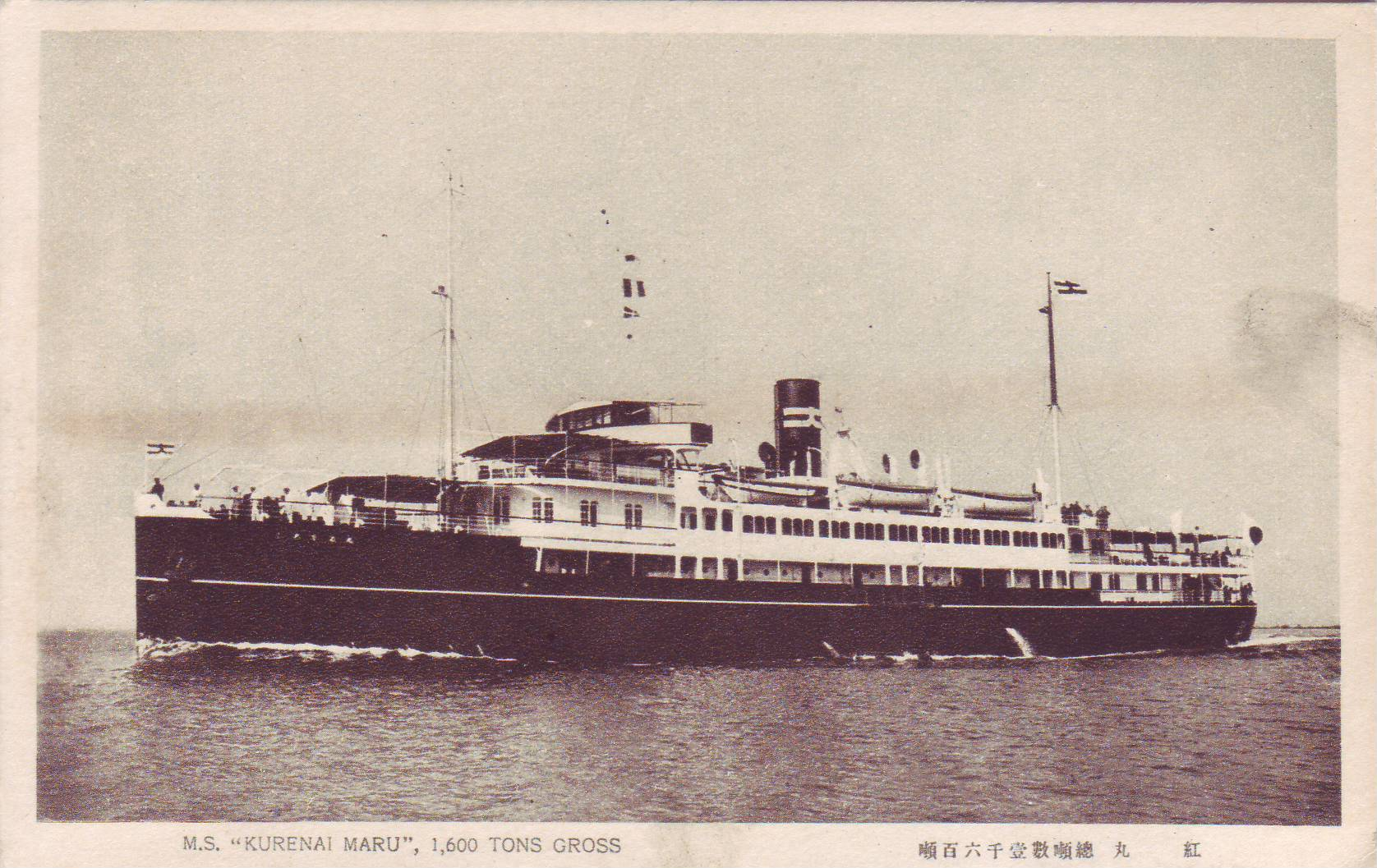 Postcard of the OSK Line ship "Kurenai Maru"